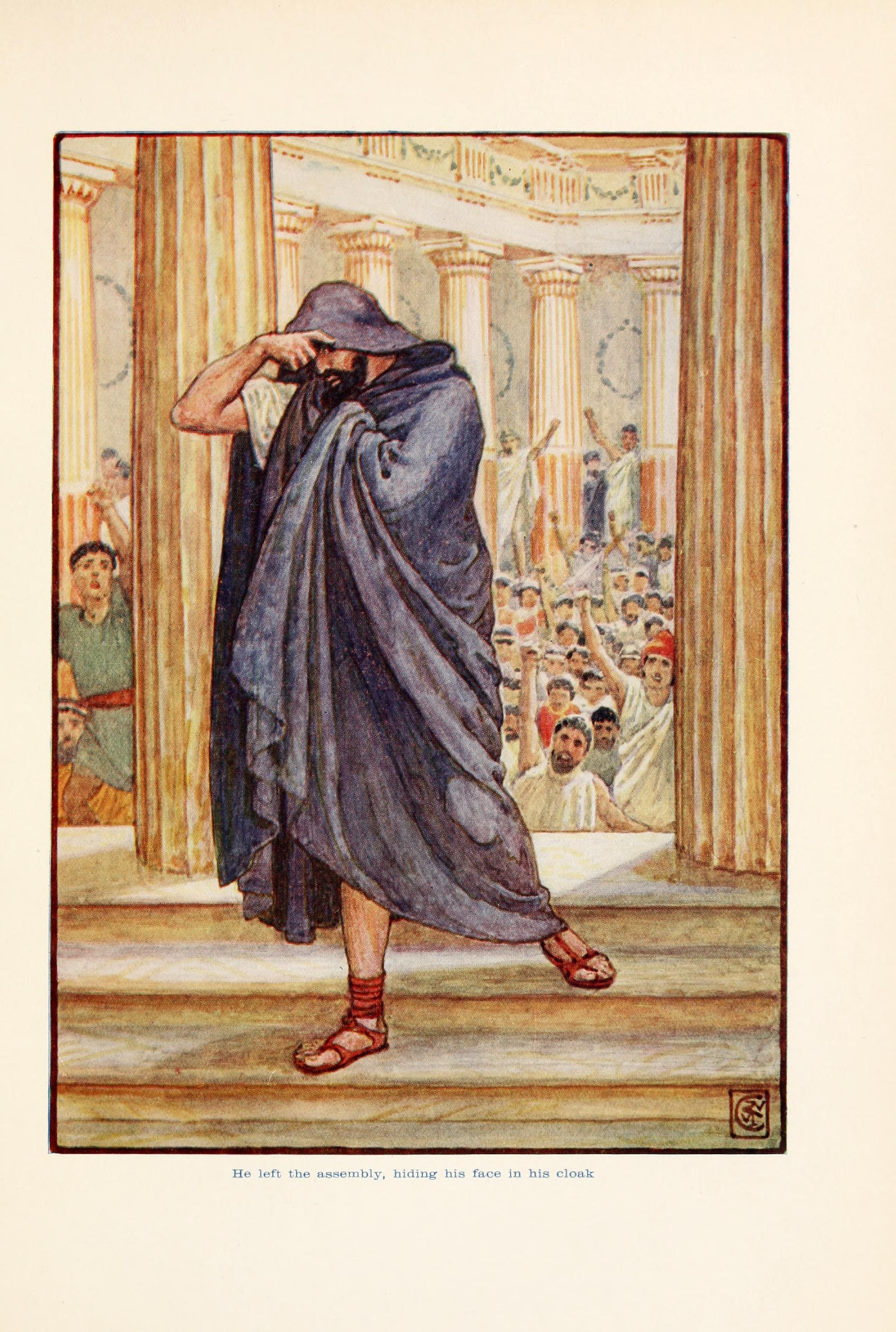 These stories from the history of ancient Greece begin with myths and legends of gods and heroes and end with the conquests of Alexander the Great. The book is accessible and well organized, but it is considerably more detailed than some other introductory texts. It covers Greek history from the age of Mythology to the rise of Alexander, but because of its length we do not recommend it for 5th grade or younger. It is an excellent reference, thoroughly engaging, and a good candidate for a somewhat older student's first foray into Greek history.